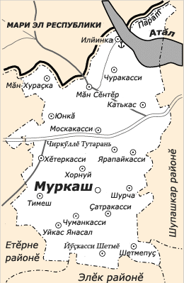 Чăваш Енри Муркаш районĕн картти. The map of the Morgaushi rayon in Chuvashia. Chuvash names of villages.